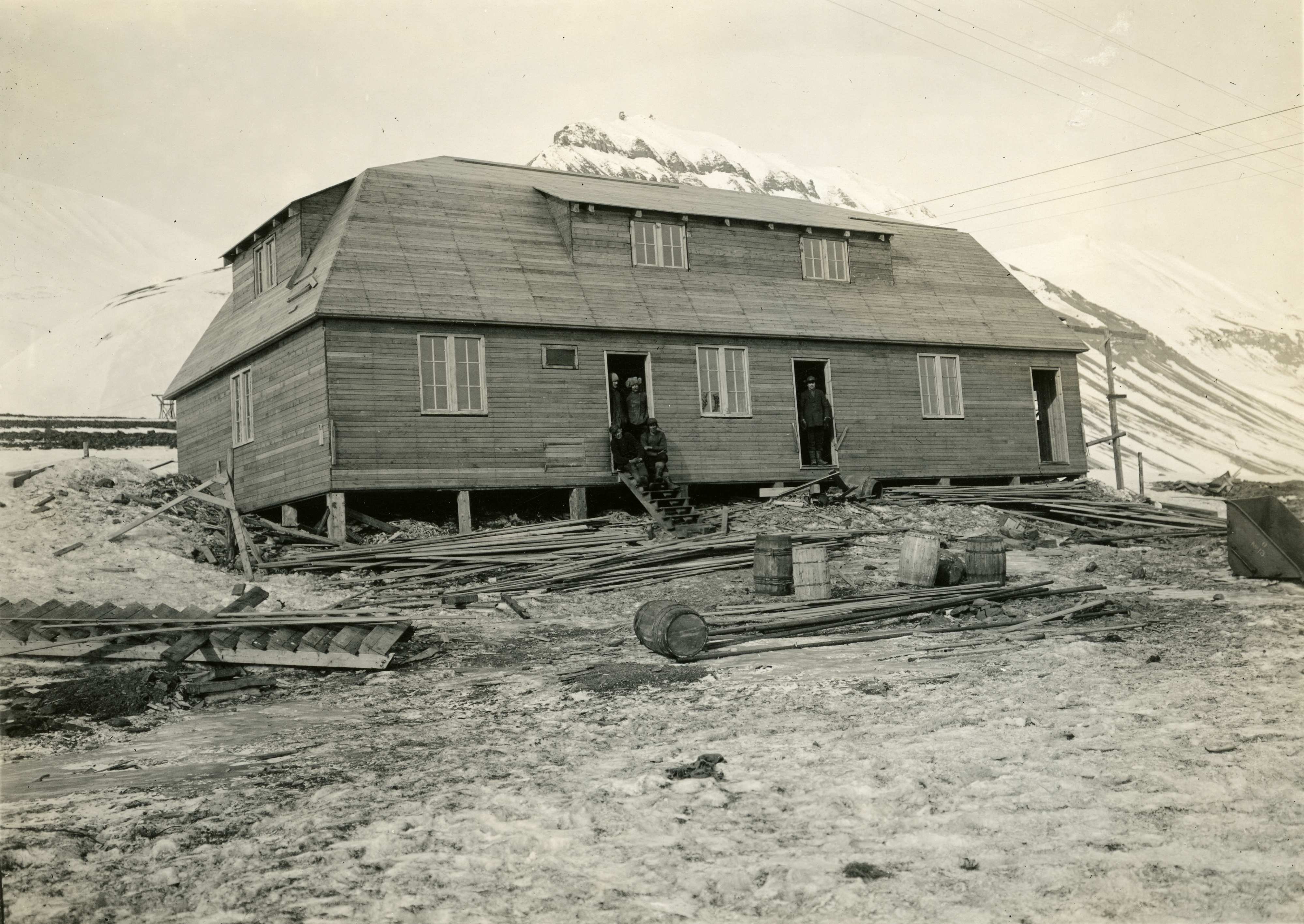 The bathing- and washhouse at Svea mine, 1921.